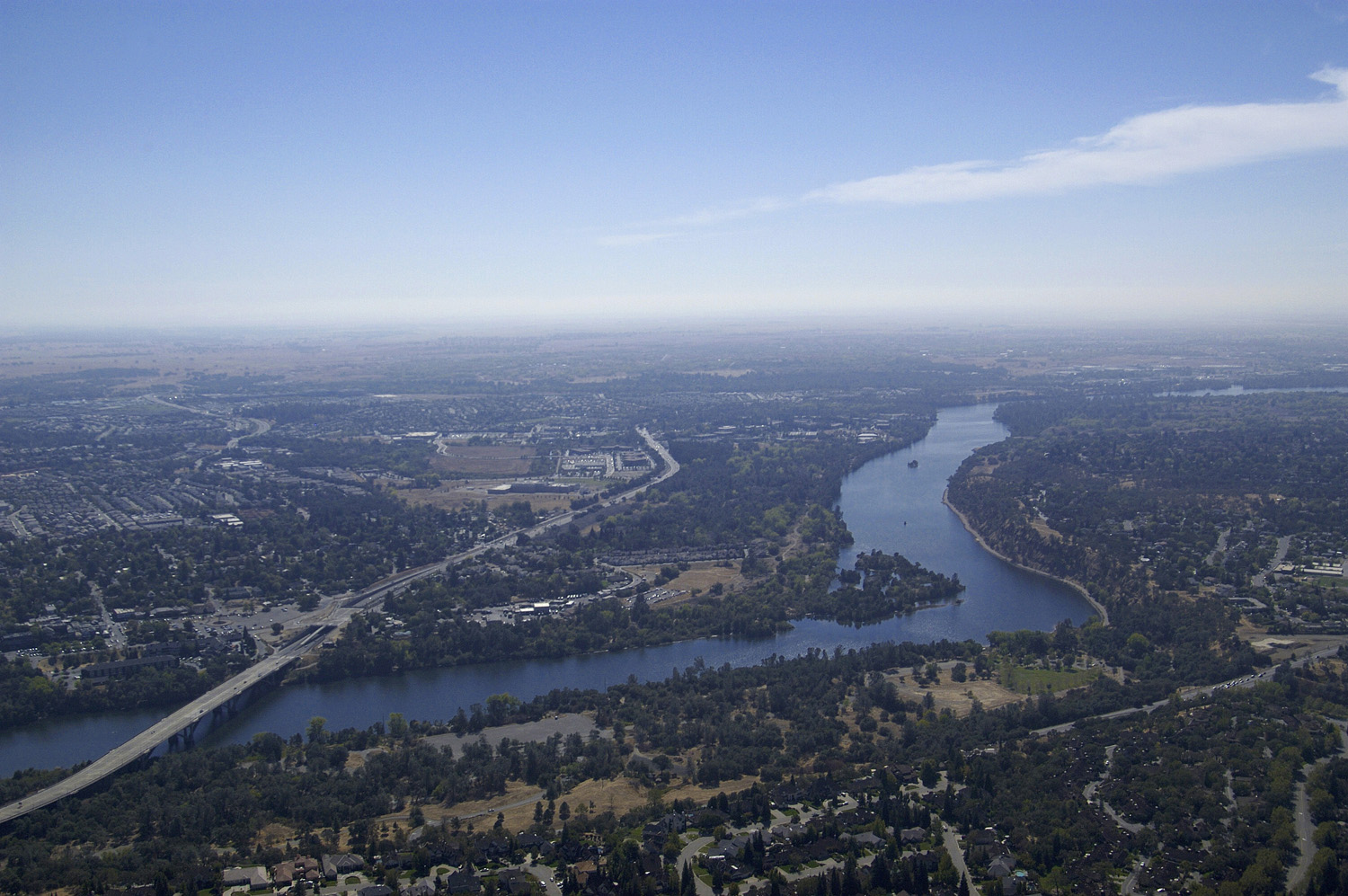 American River aerial view near Fair Oaks, CA